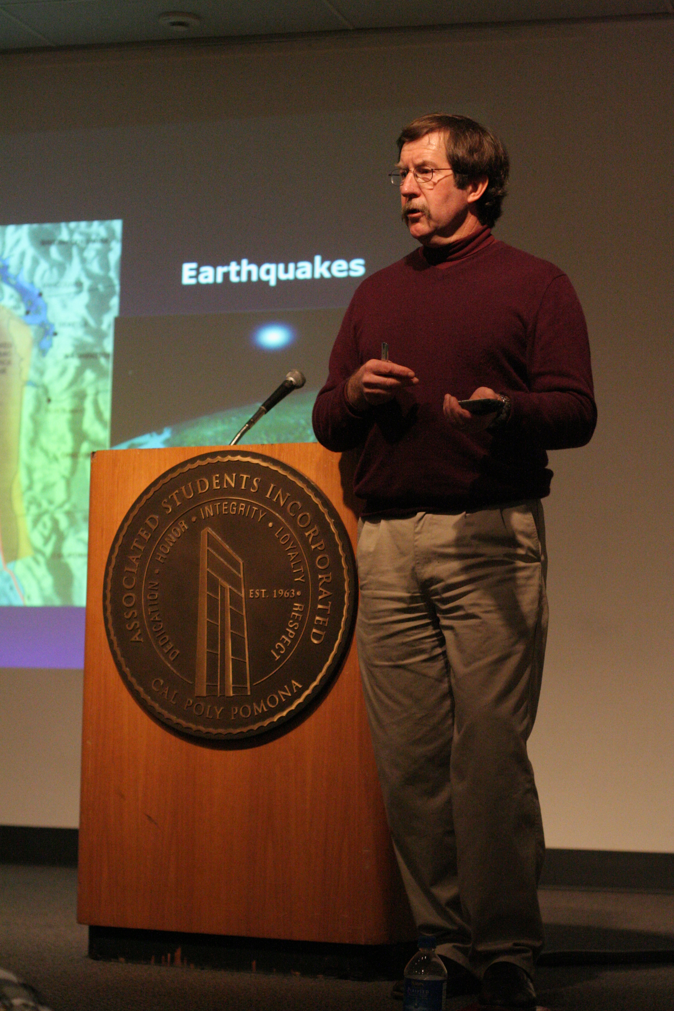 John J. Clague giving a lecture on the dangers and effects of tsunamis and earthquakes at Cal Poly Pomona